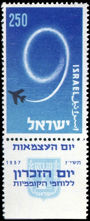 Ninth Independence Day stamp - 250 mil. Inscription on tab: "The Ninth Independence Day", "Memorial Day for the Fighters for Independence"